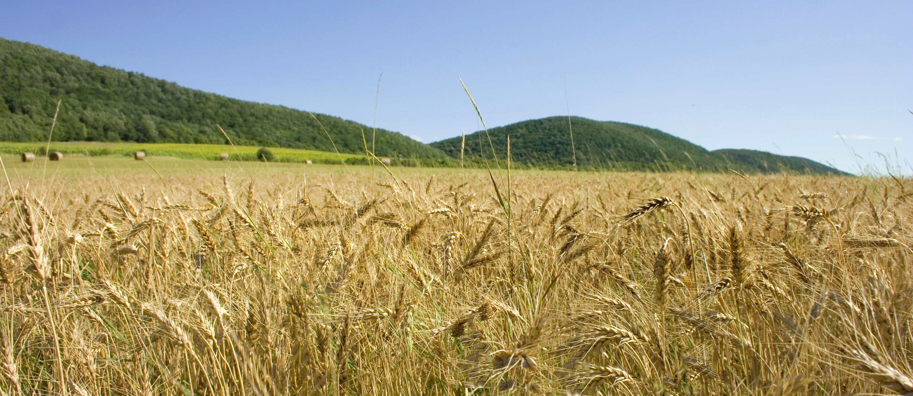 Wheat field near to Felsőtold, Hungary